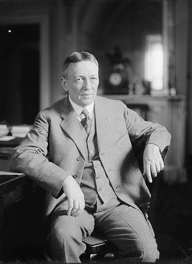 Title: Elliott Wood Abstract/medium: 1 negative : glass ; 5 x 7 in. or smaller